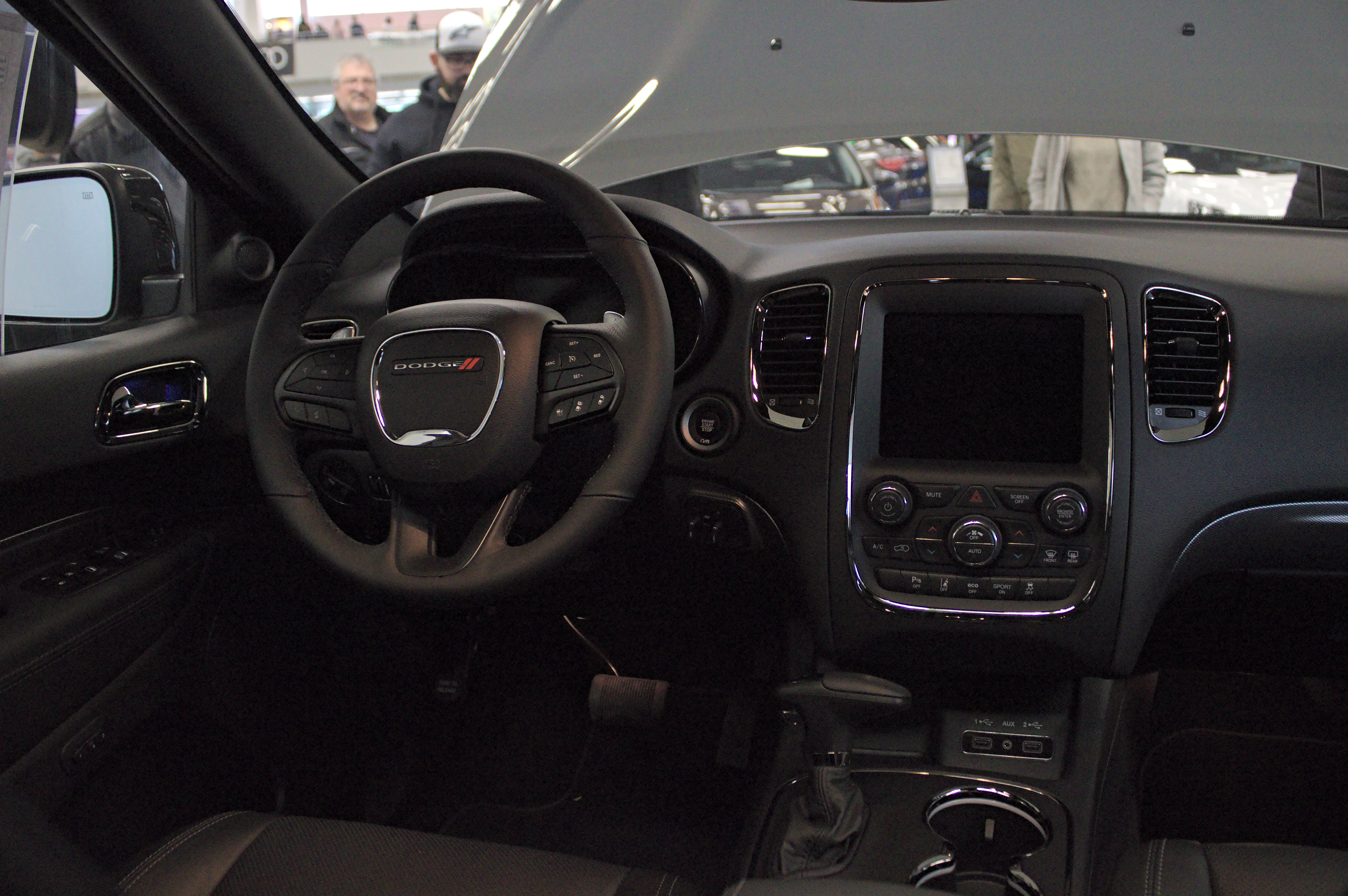 Dodge_Durango_(third_generation)_Sindelfingen_2020